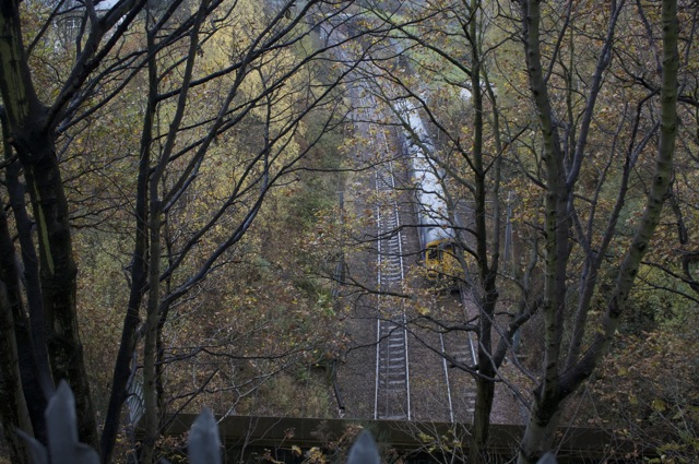 Shipley -Leeds Railway at Entrance to Thackley Tunnel A difficult shot from the top of a wall in front of the Railtrack security fence. The tunnel headwall is visible at the bottom of the picture. An eastbound DMU train is about to enter Thackley Tunnel.